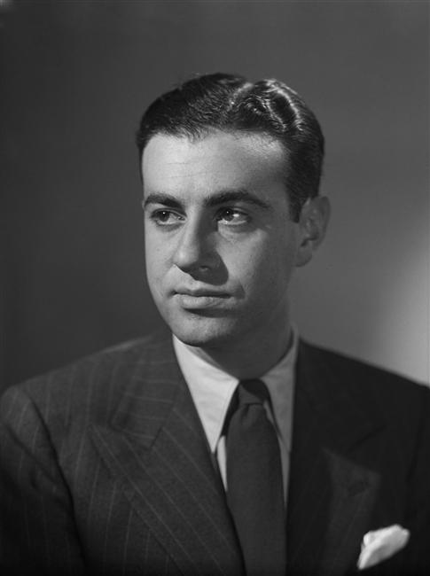 Studio photo